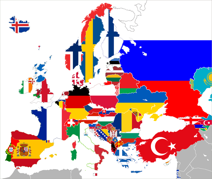 Flag map of UEFA members